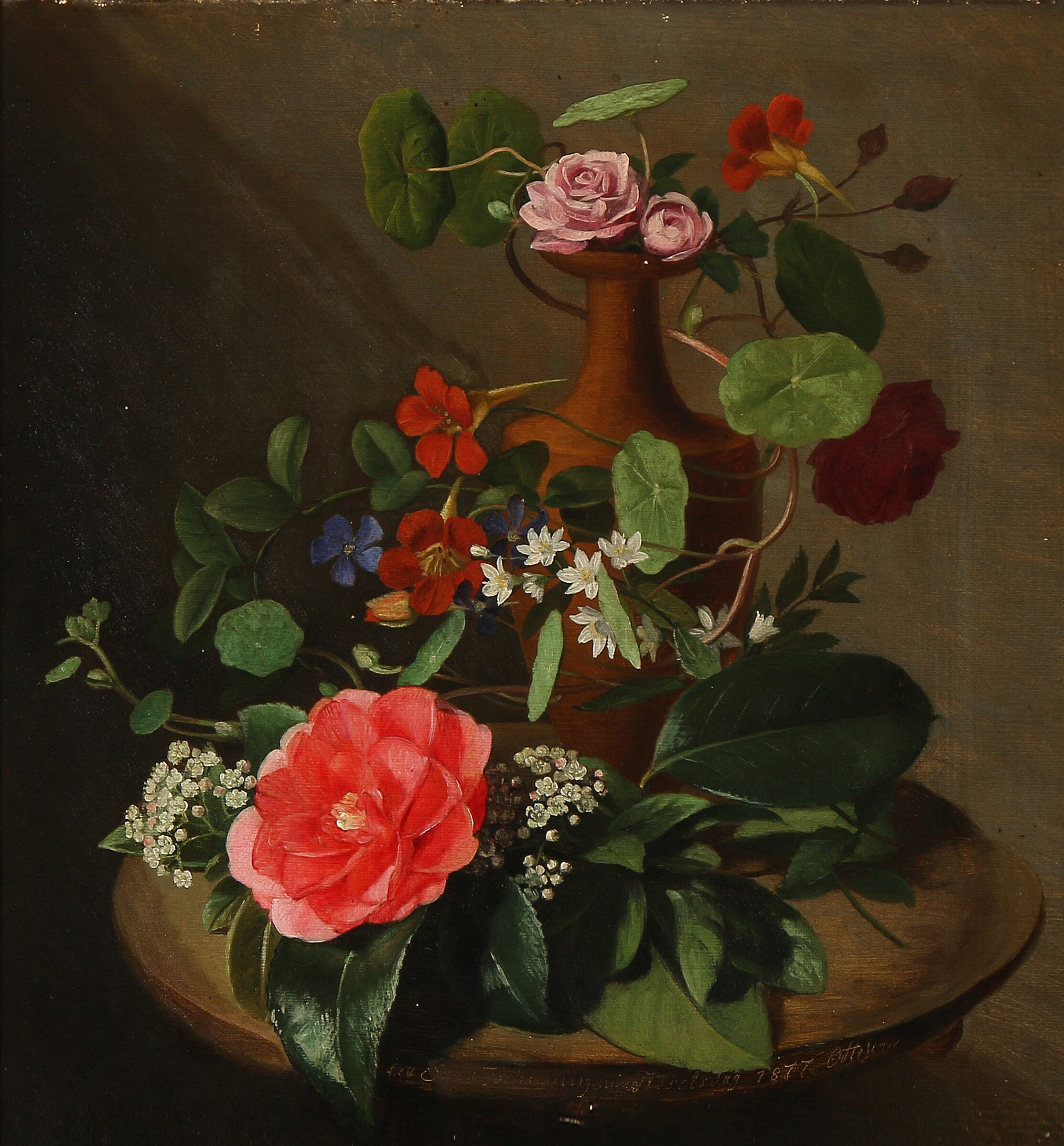 The painting was a birthday present from Sara Tscherning to Otto D. Ottesen, who was a professor at the Academy and an accomplished painter of flowers himself. Ottesen wrote the inscription, which translates From Sara Tscherning my birthday 1877 Ottesen.